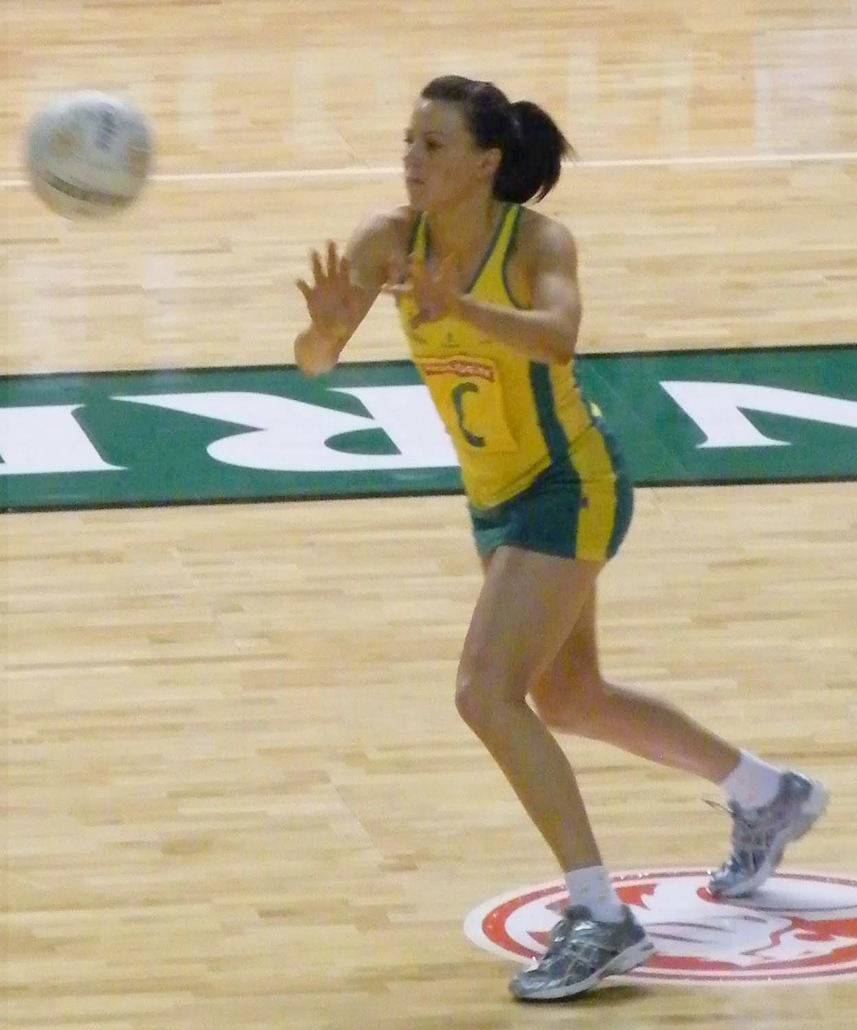 Australia v England Netball test - Adelaide october 2008